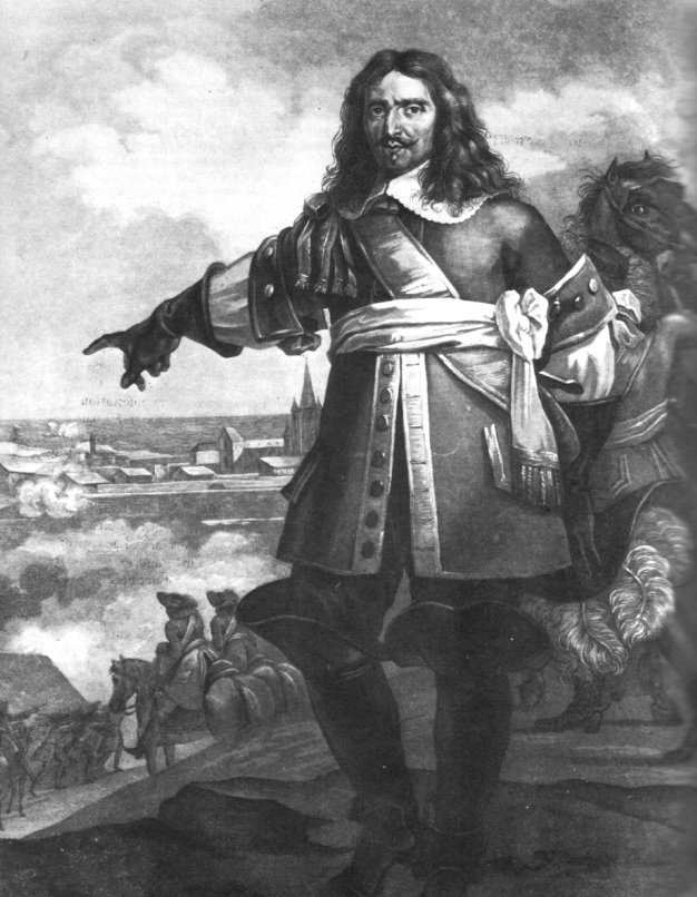 marshall Turenne